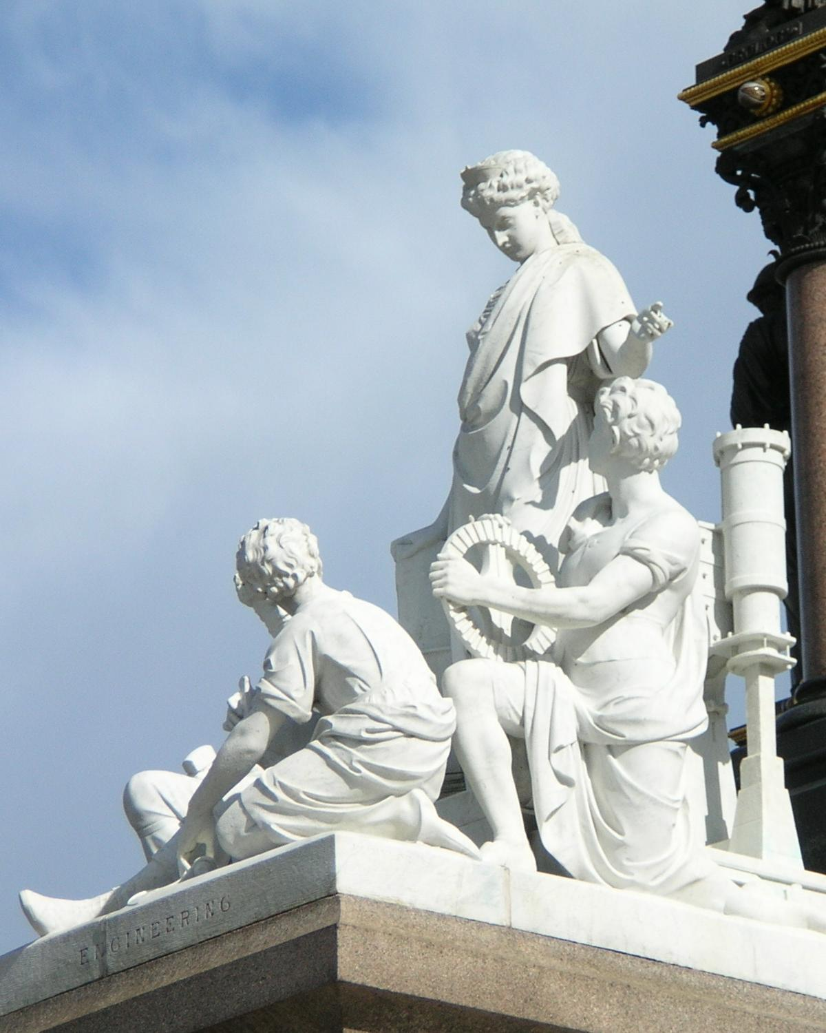 Engineering group (Albert Memorial), sculpted by John Lawlor